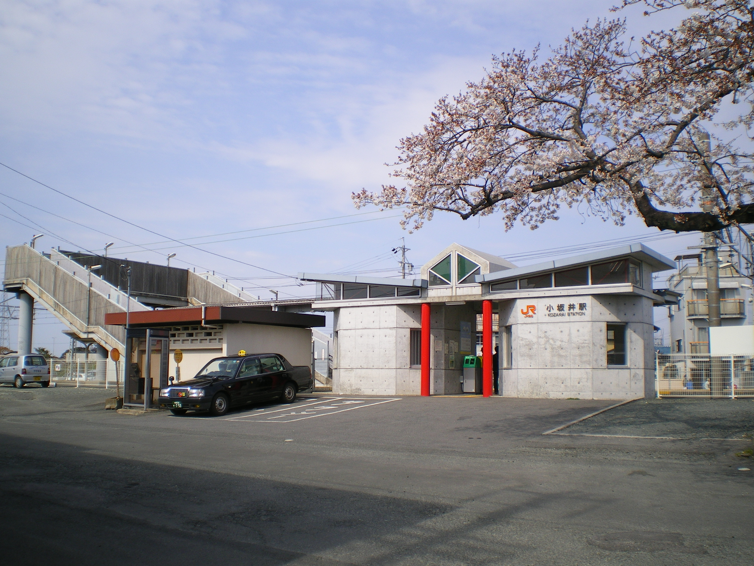 Central Japan Railway Iida Line Kozakai Station Building